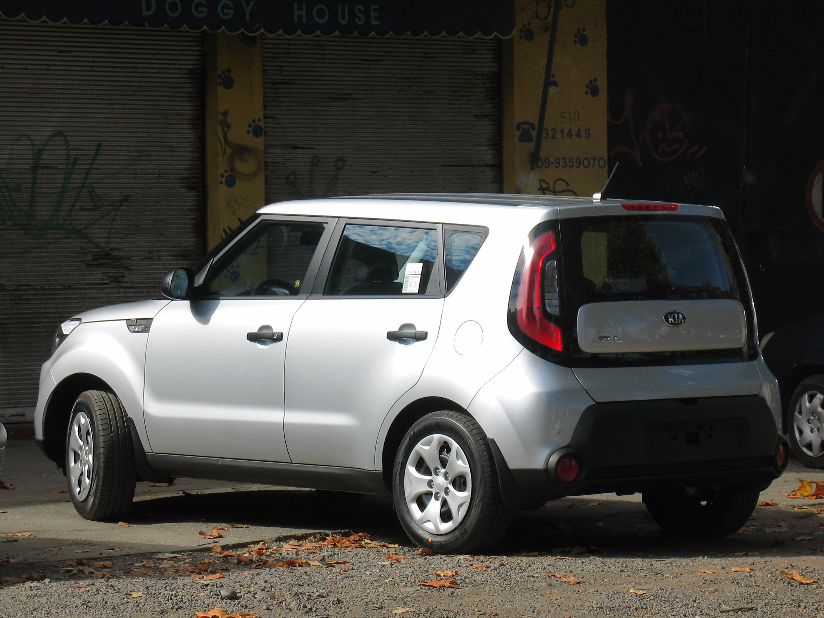 The facelifted Soul, I think it's way better looking.